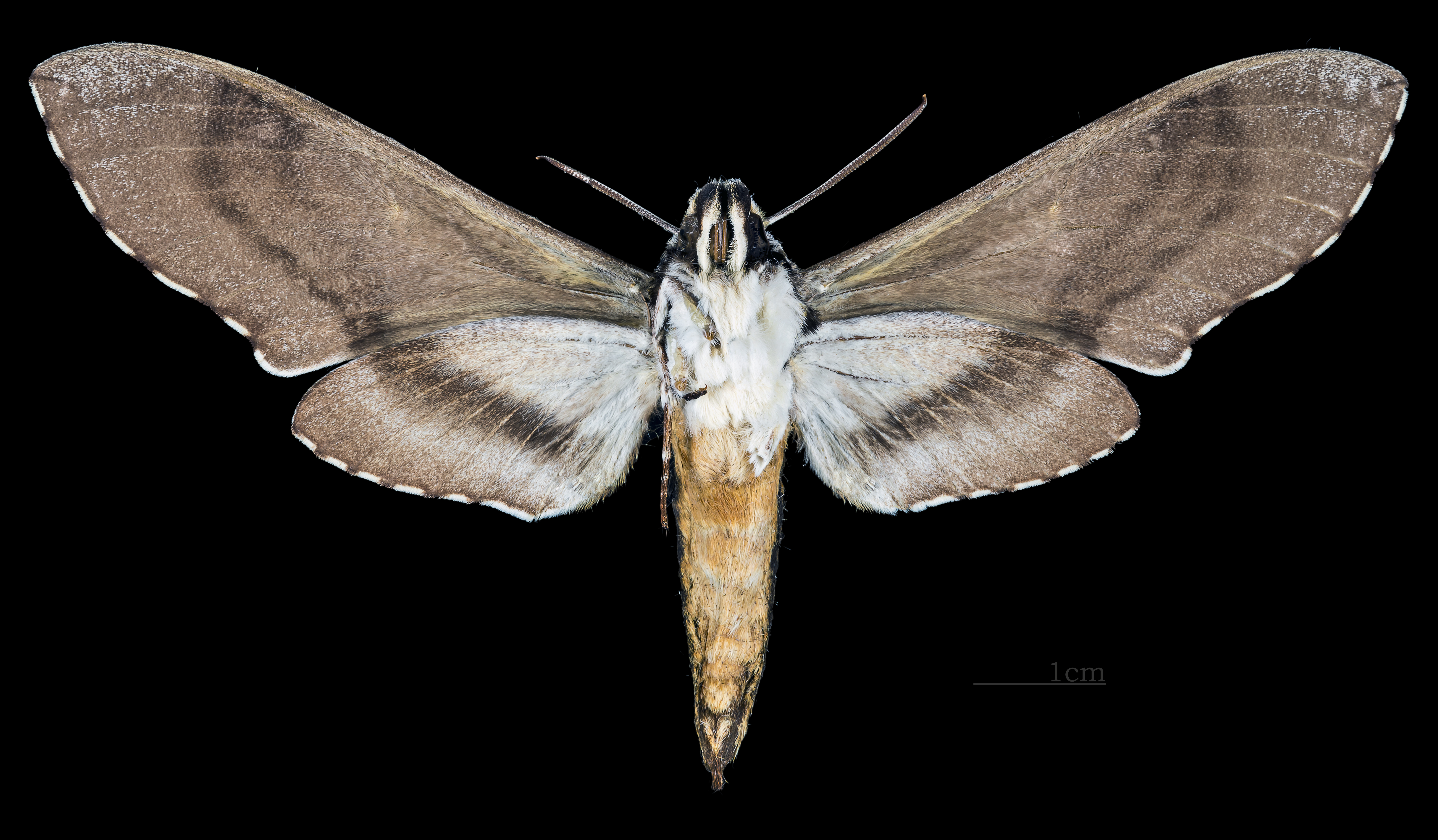 Manduca incisa - △ Ventral side Collection of the Mathematician Laurent Schwartz